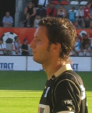 Christophe Gregoire (AA Gent), in the match Excelsior Mouscron - AA Gent (1-4), August 8, 2007